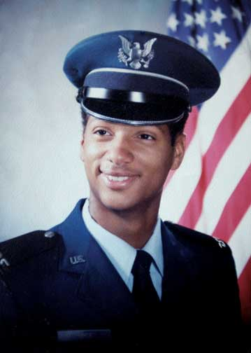 LeRoy Homer Jr. as an Air Force Academy cadet. First Officer of United Airlines Flight 93, which crashed near Shanksville, PA on September 11, 2001.